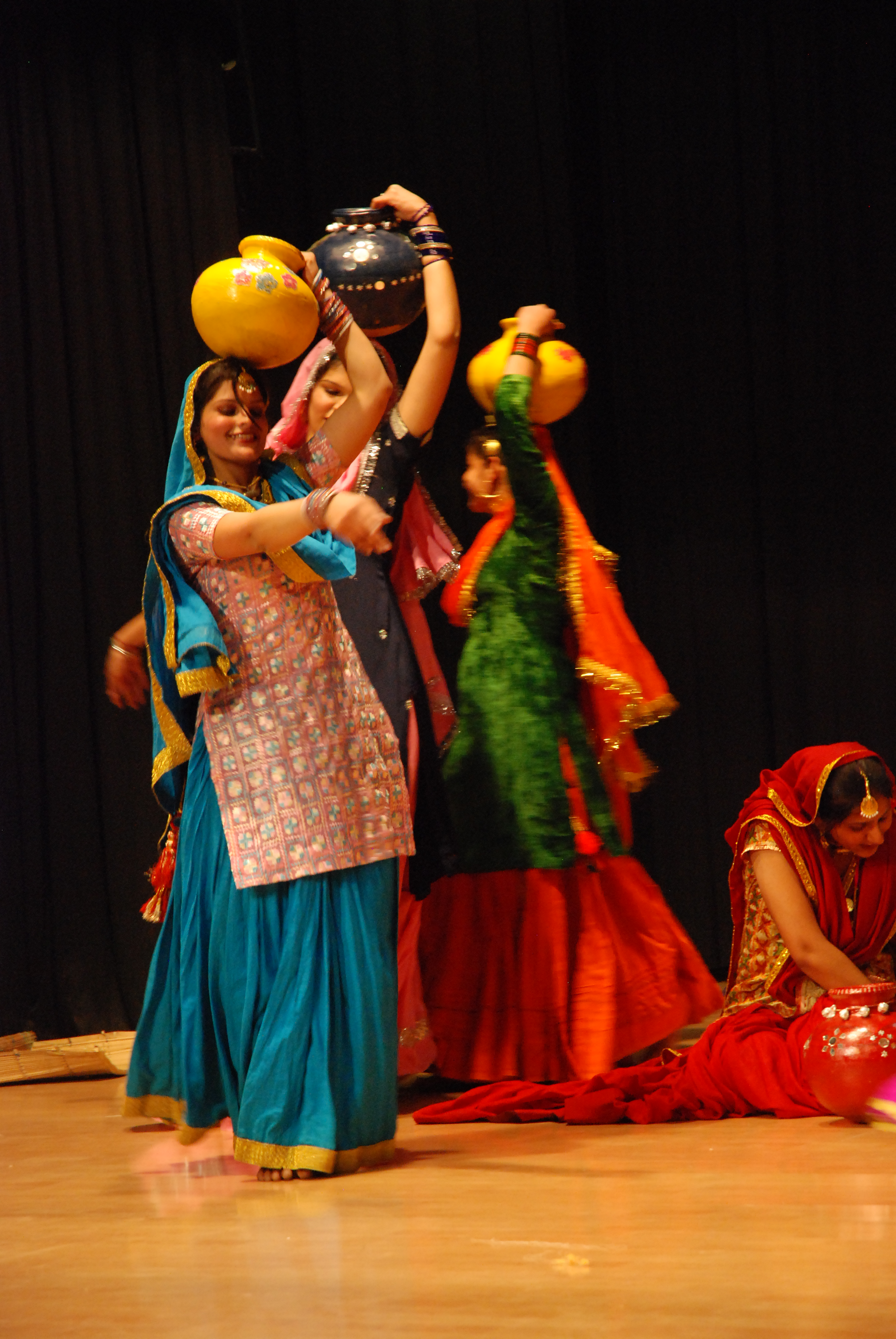 Punjabi folk Dance